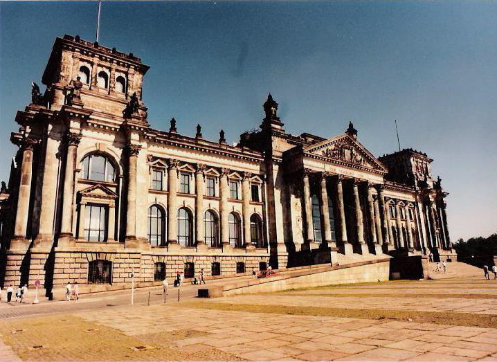 German government building in Berlin.German Government Building, Berlin